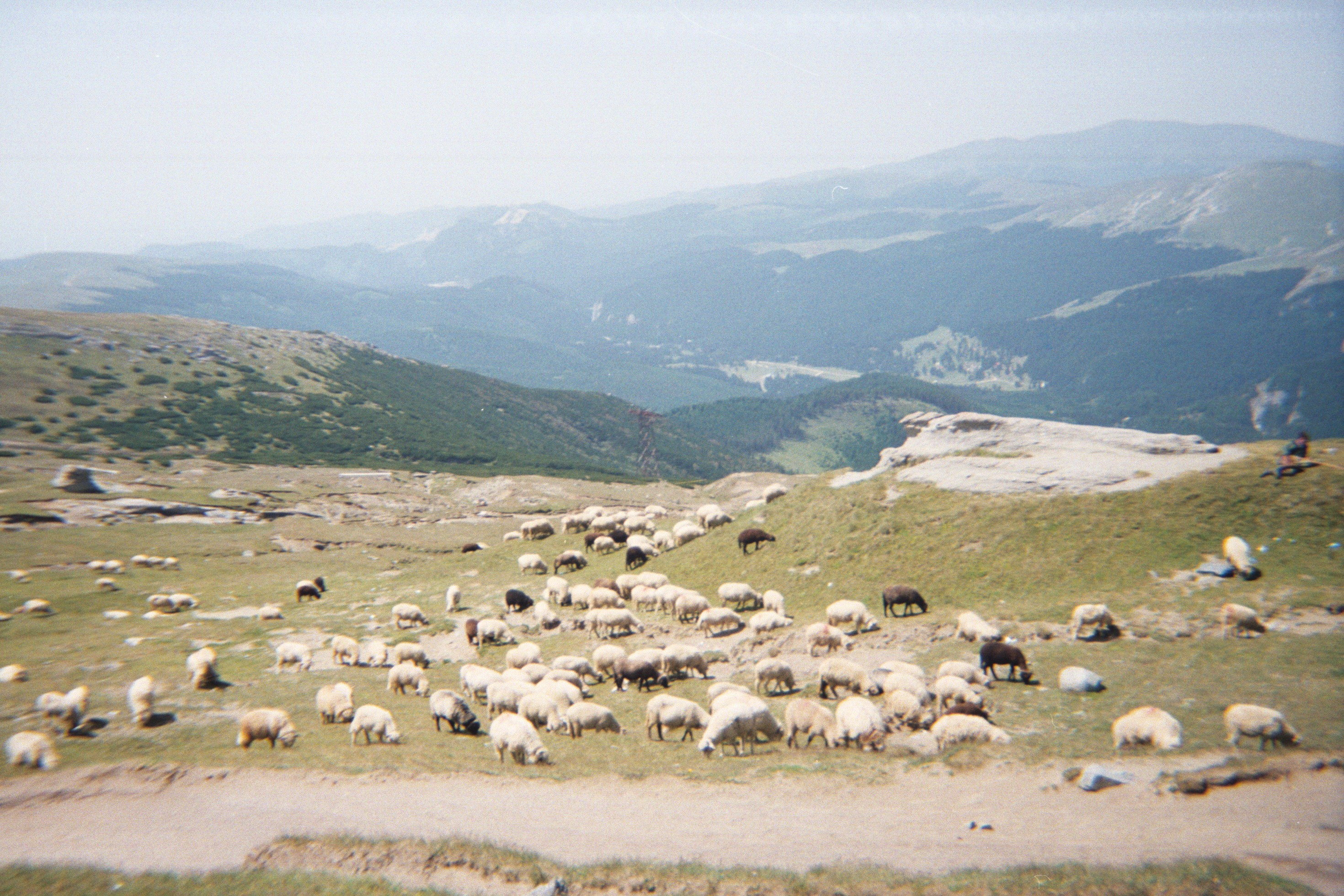 The Plateau of the Bucegi Mountains, Romania